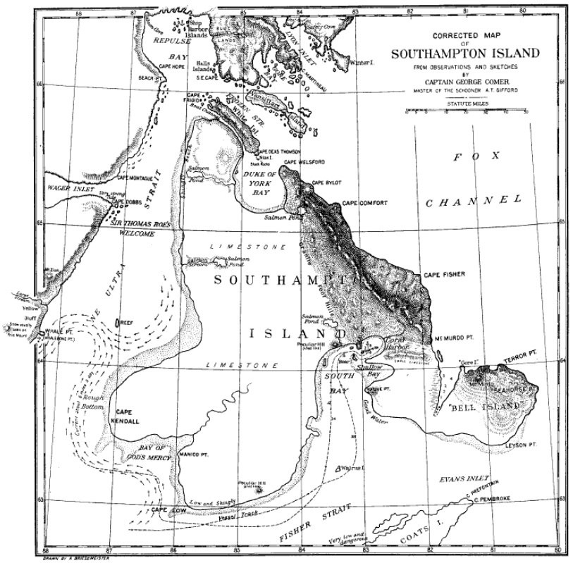 Map of Southampton Island as part of George Comer's "A Geographical Description of Southampton Island and Notes upon the Eskimo."